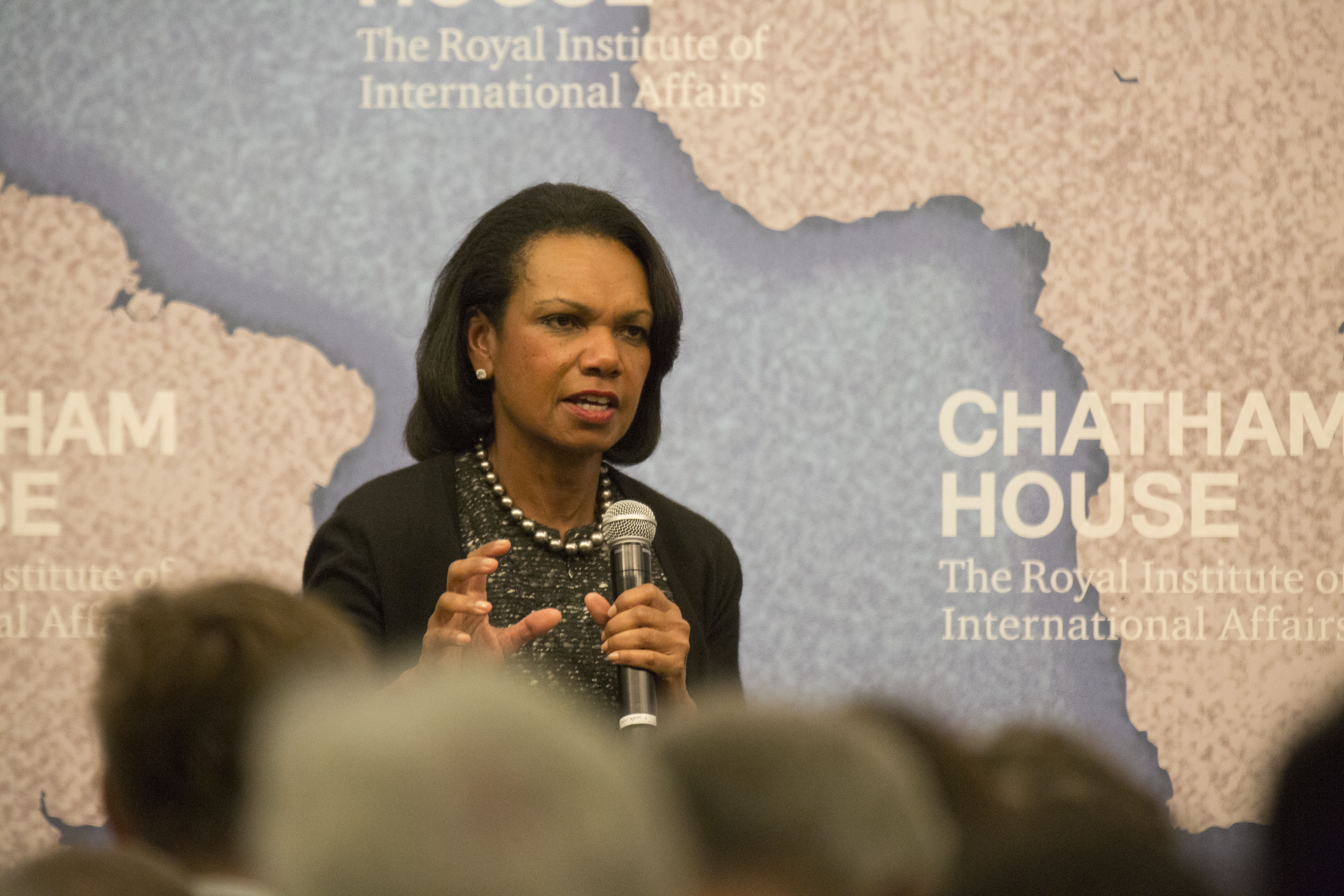 Renewing the Transatlantic Alliance, 29 October 2015, cht.hm/1kV7zXw